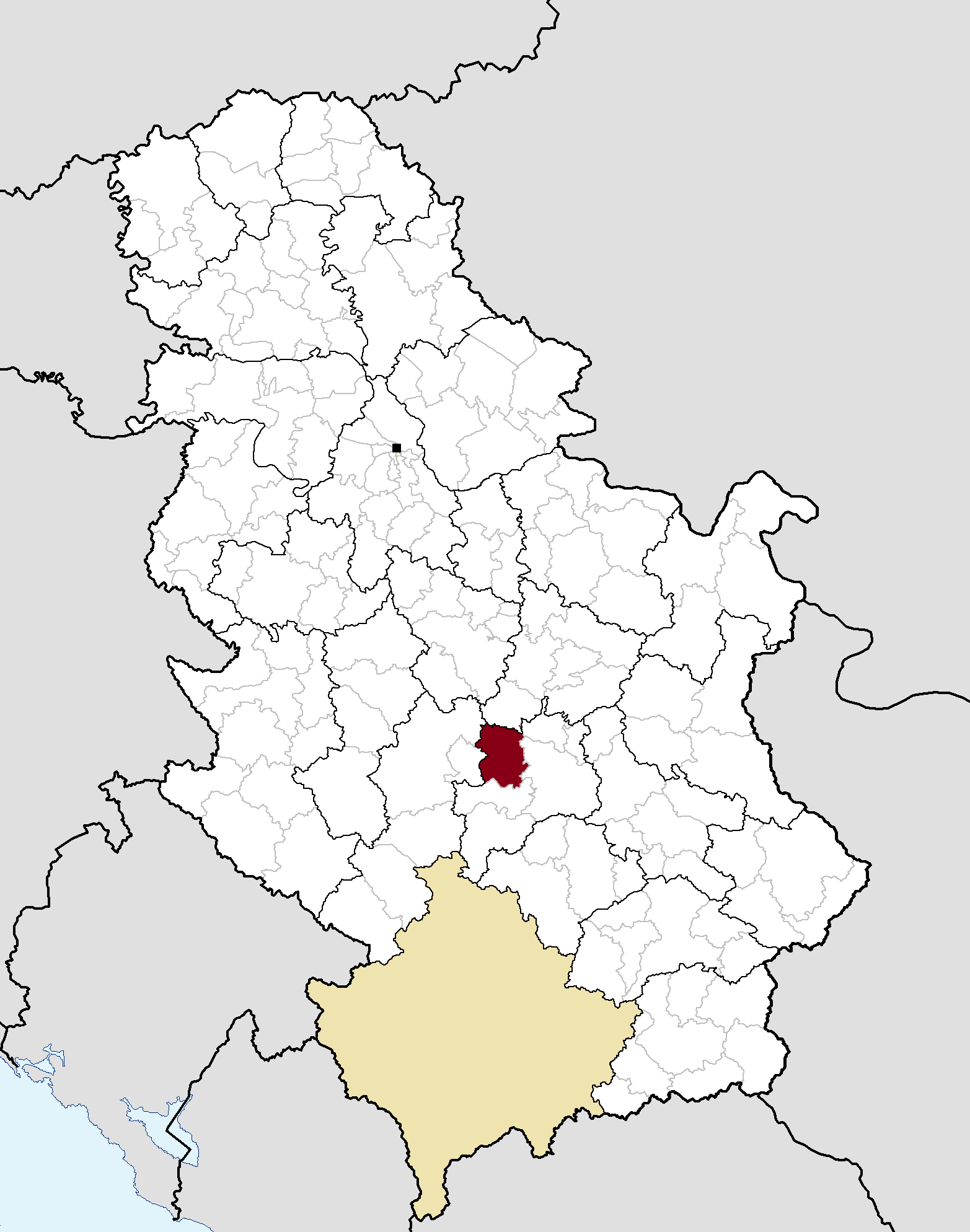 Municipal location in Serbia